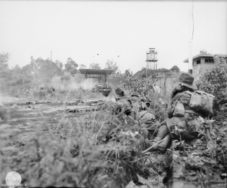 TARAKAN ISLAND, BORNEO. 1945-05-05. A MATILDA TANK OF 2/9TH AUSTRALIAN ARMOURED REGIMENT BLASTS AN ENEMY POSITION, WHILE MEMBERS OF THE 2/24TH INFANTRY BATTALION, ONE WITH A WALKIE-TALKIE, OBSERVE THE EFFECTS OF FIRE. (UNITED STATES SIGNALS CORPS C-45-17579). (DONOR: LIEUTENANT GENERAL F. H. BERRYMAN).